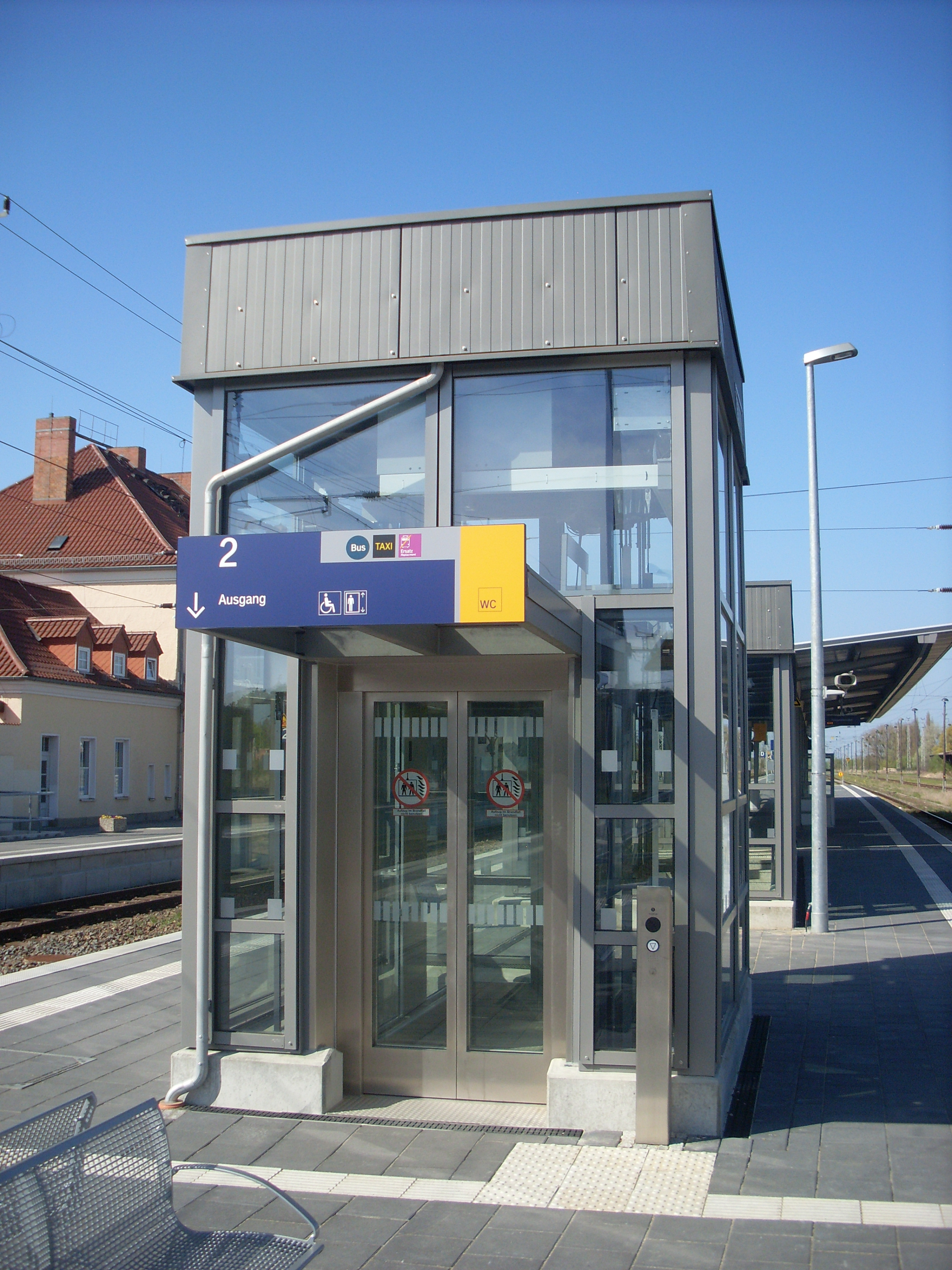 Elevator on platform 1 and 7.